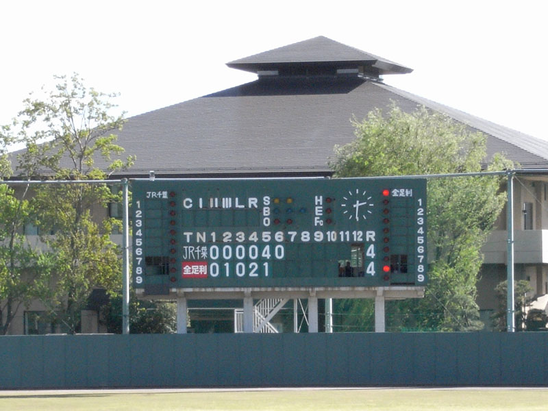 Scoreboard at the Ashikaga City Baseball Stadium